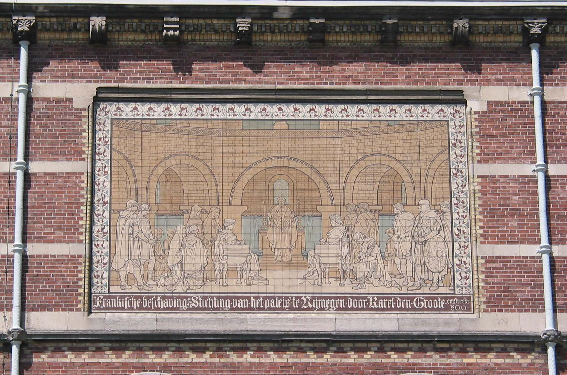 Tile Picture 'Frankish civilization. Foundation of the palace in Nijmegen by Charlemagne around 800'.